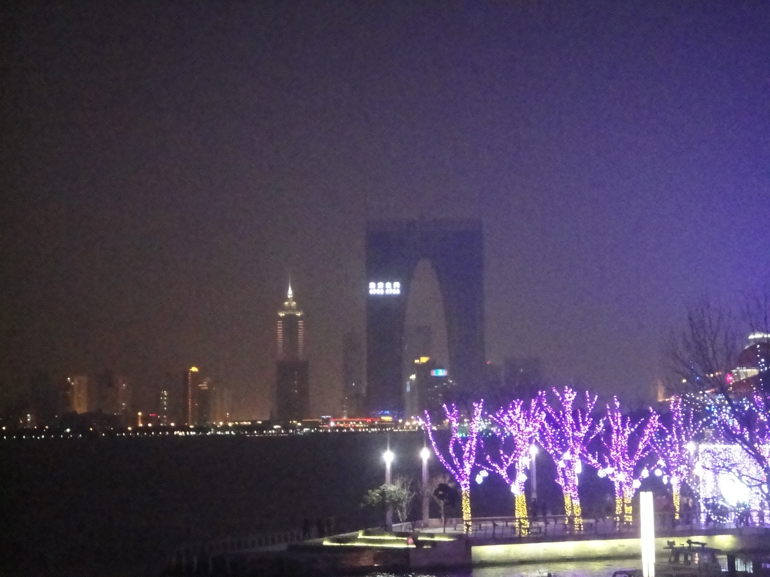 Gate of the Orient (under construction) and Global 188 at night